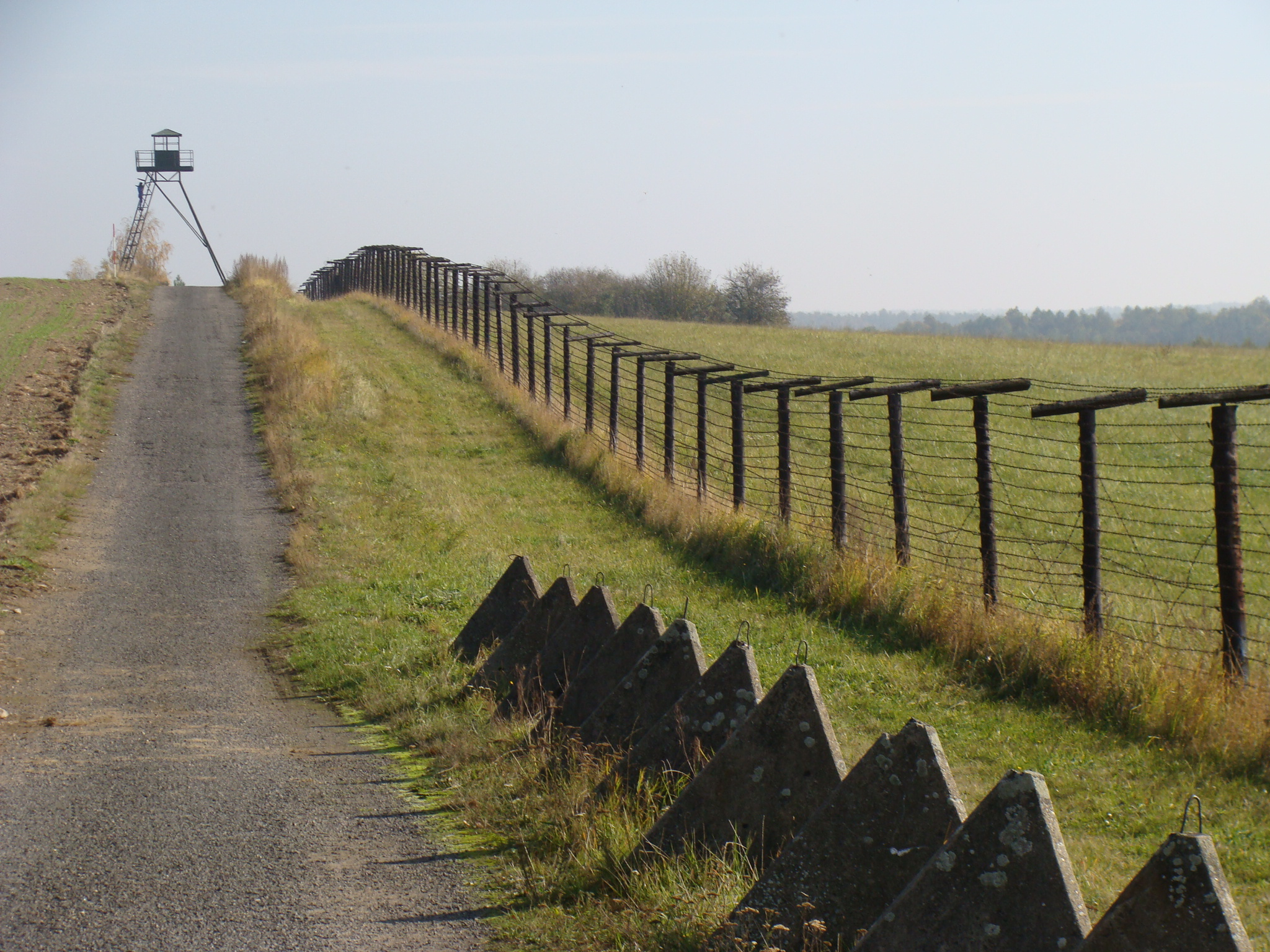 Old border fortification near Cizov, CZ